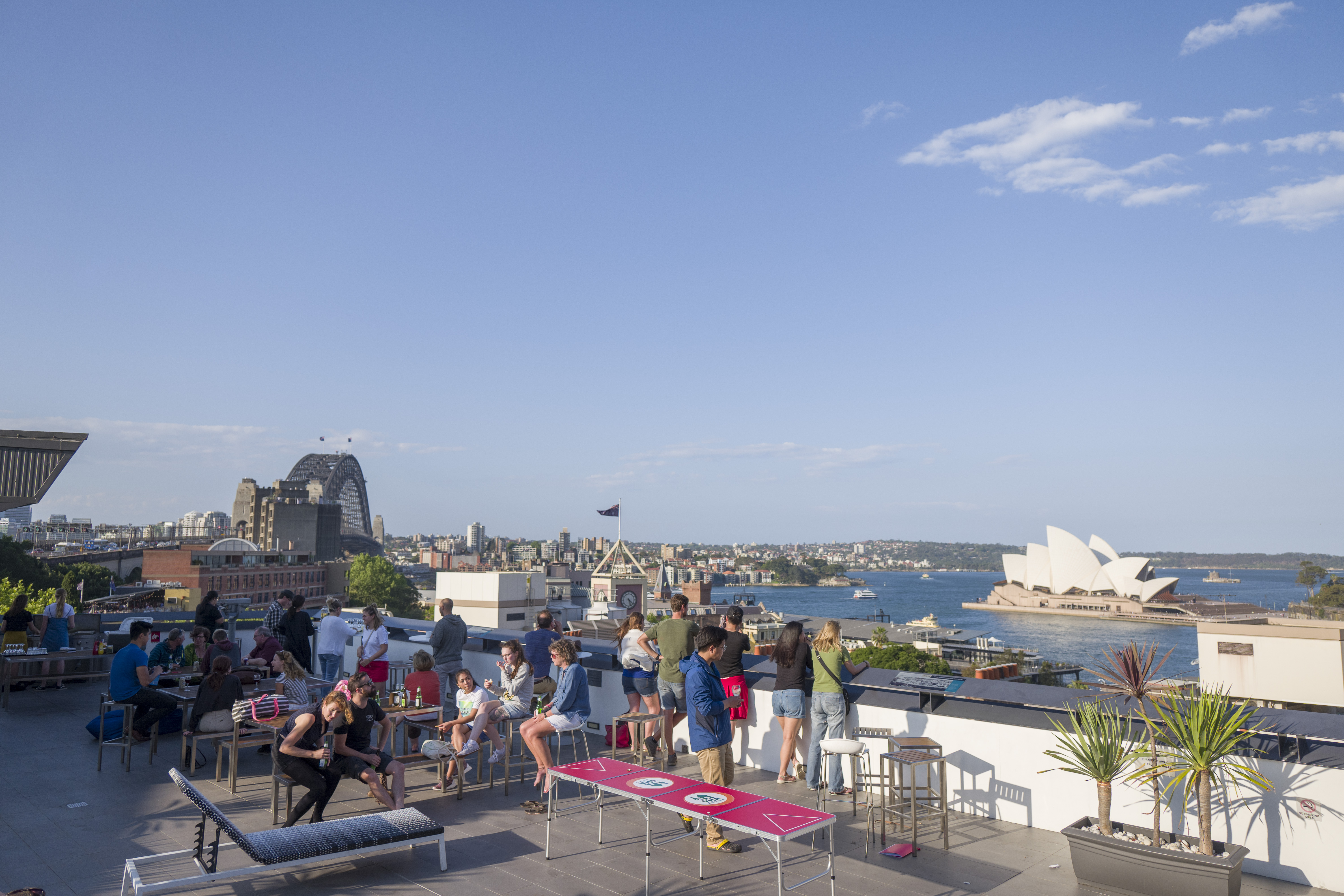 Sydney Harbour YHA guests playing beerpong